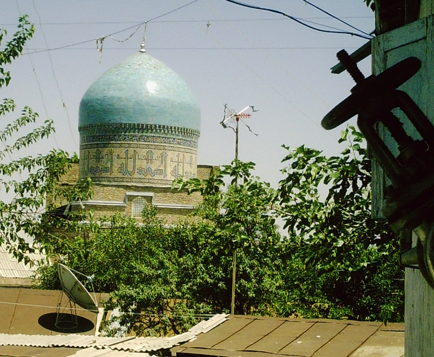 View from historic oldtown Istarawshan on the Abdullatif (Abd-al-Latifa) Medresah in early June 2007